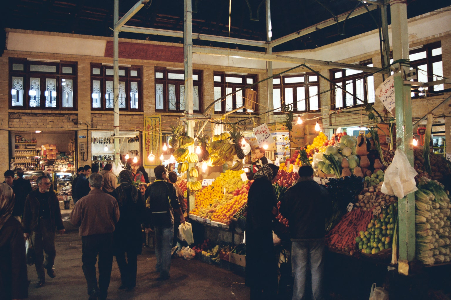 Indoor fruit market in old Bazar of Tajrish in northern Tehran, taken by Mani Parsa in 2004.